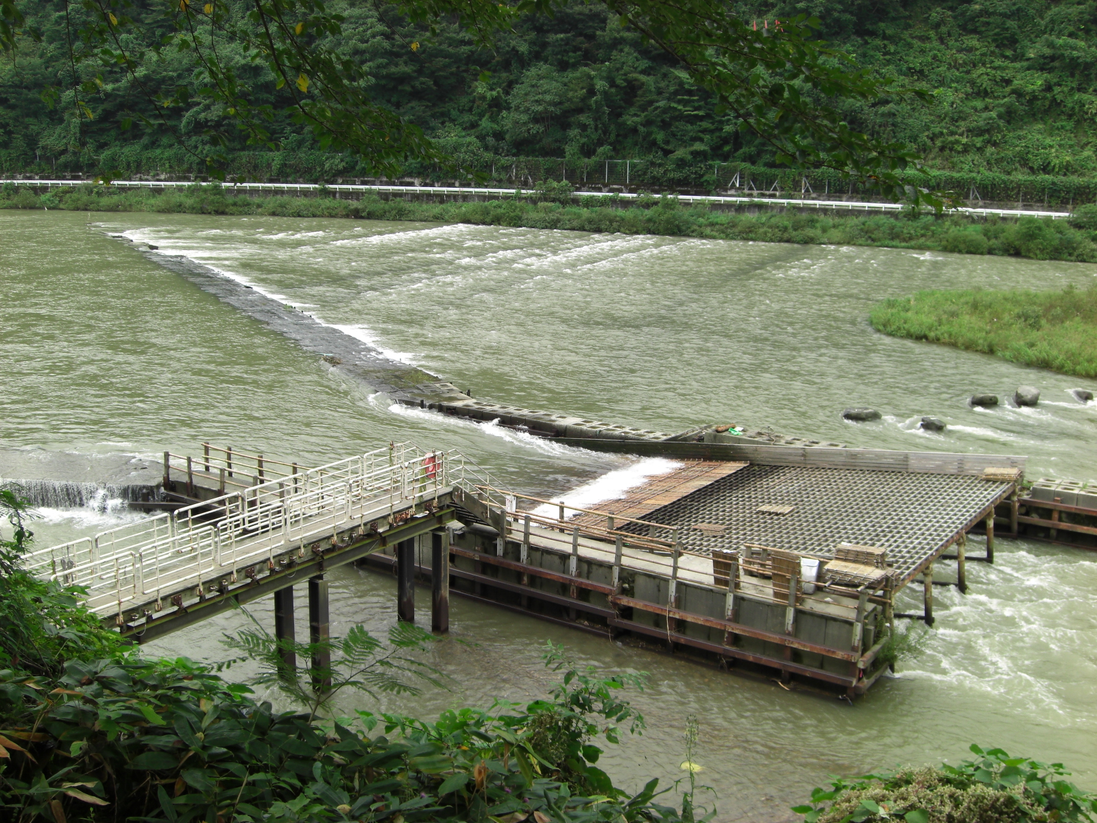 Fish trap installed on the Mogami River in Shirataka Town, Yamagata Prefecture, Japan